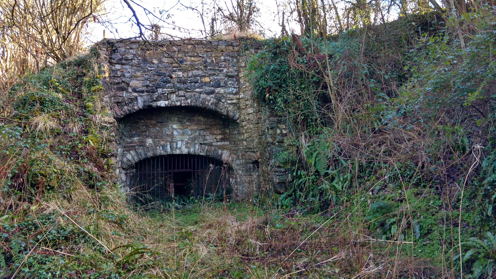 Lime Kiln at Bishopswood Meadows